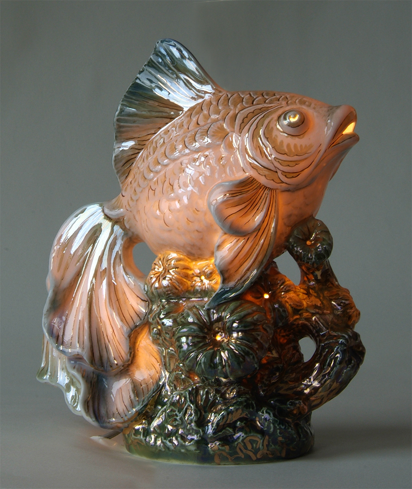 Porcelain lamp «Fish». Porcelain sculpture on the fairy tale «Fisherman and Fish (Gold Fish)». 1955. Porcelain of the soviet sculptor Bronislav Bystrushkin (1926-1977). Lomonosov's Porcelain Factory, Leningrad, USSR.